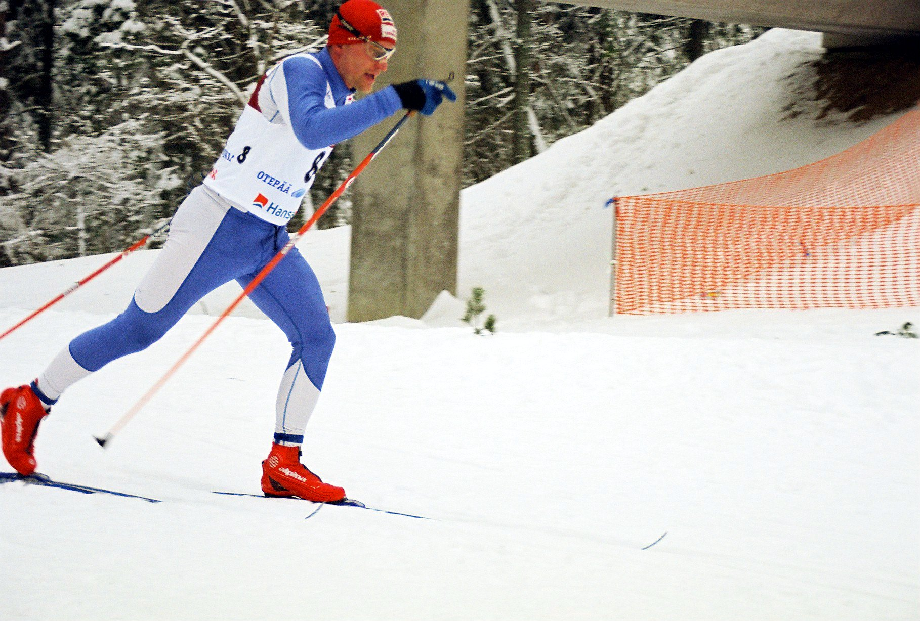 Pavo Raudsepp FIS World Cup Cross Country - January 7-8 2006 in Otepää, Estonia Men's 15k Classic XC